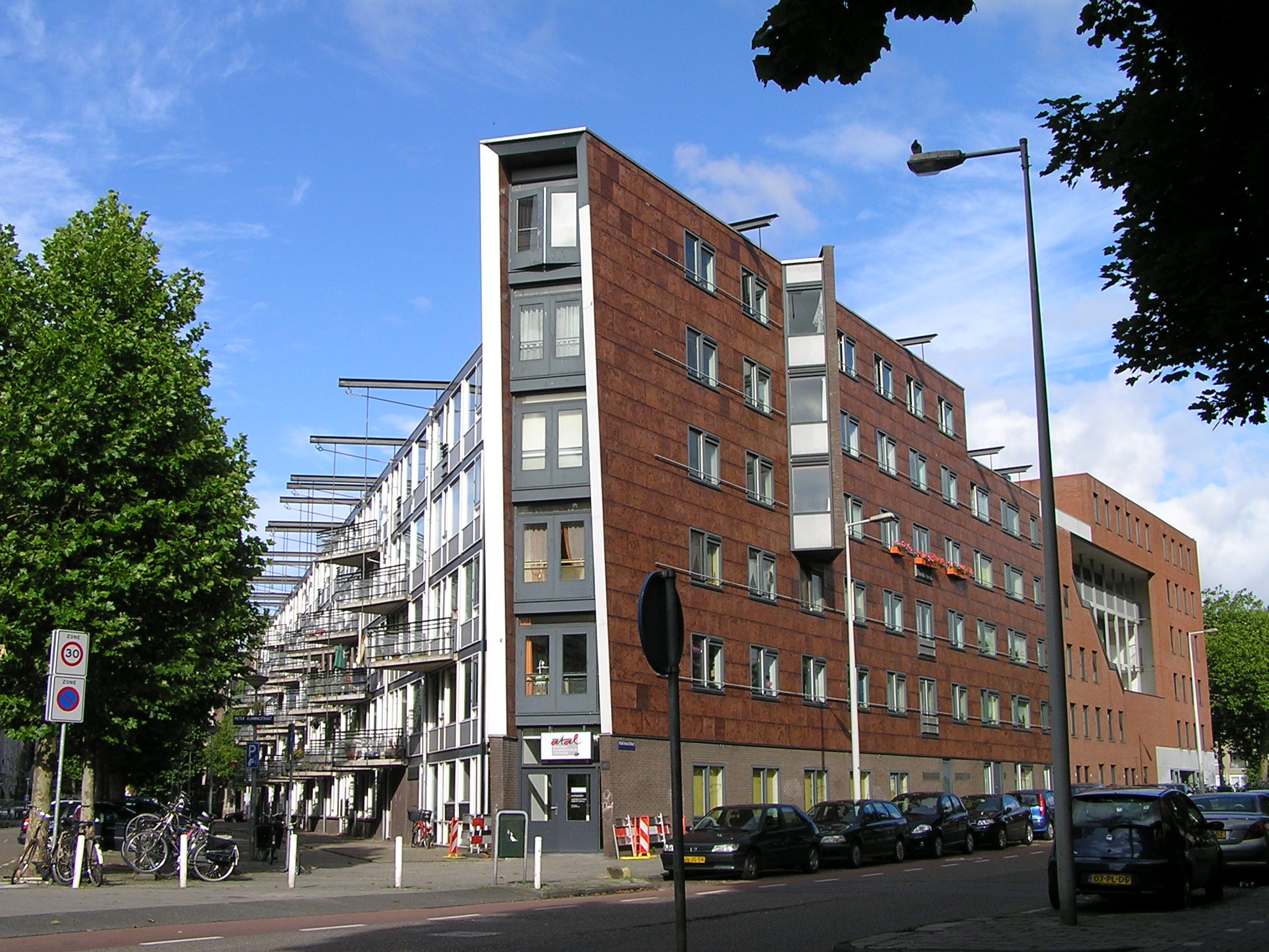 Housing project in Amsterdam, corner of Pontanusstraat and Pieter Vlamingstraat. Architect: Liesbeth van der Pol.